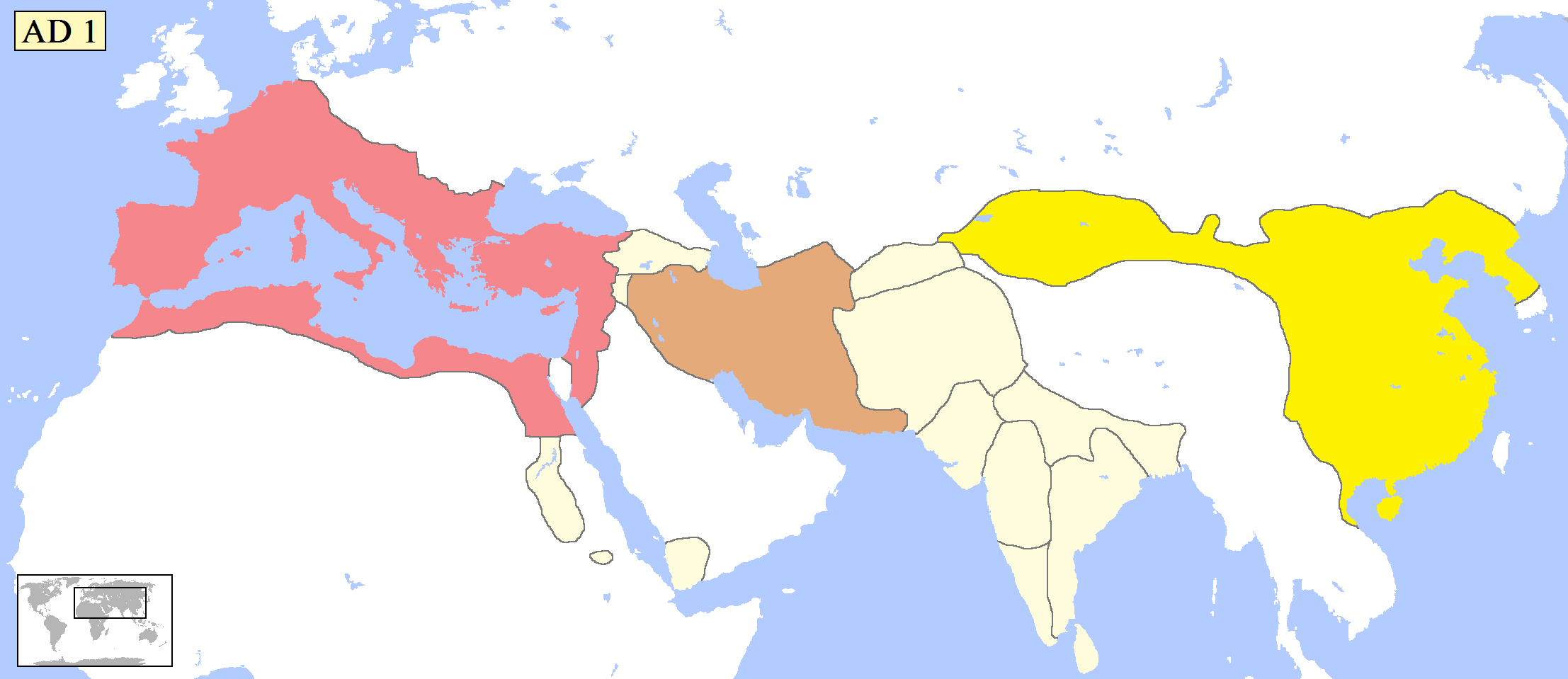 Map of Eurasia with the Roman Empire (red), Parthian Empire (brown), Chinese Han dynasty (yellow) and Indian Kingdoms, smaller satraps (light yellow). (Partially based on Atlas of World History (2007) - World 250 BC - 1 AD, map.)